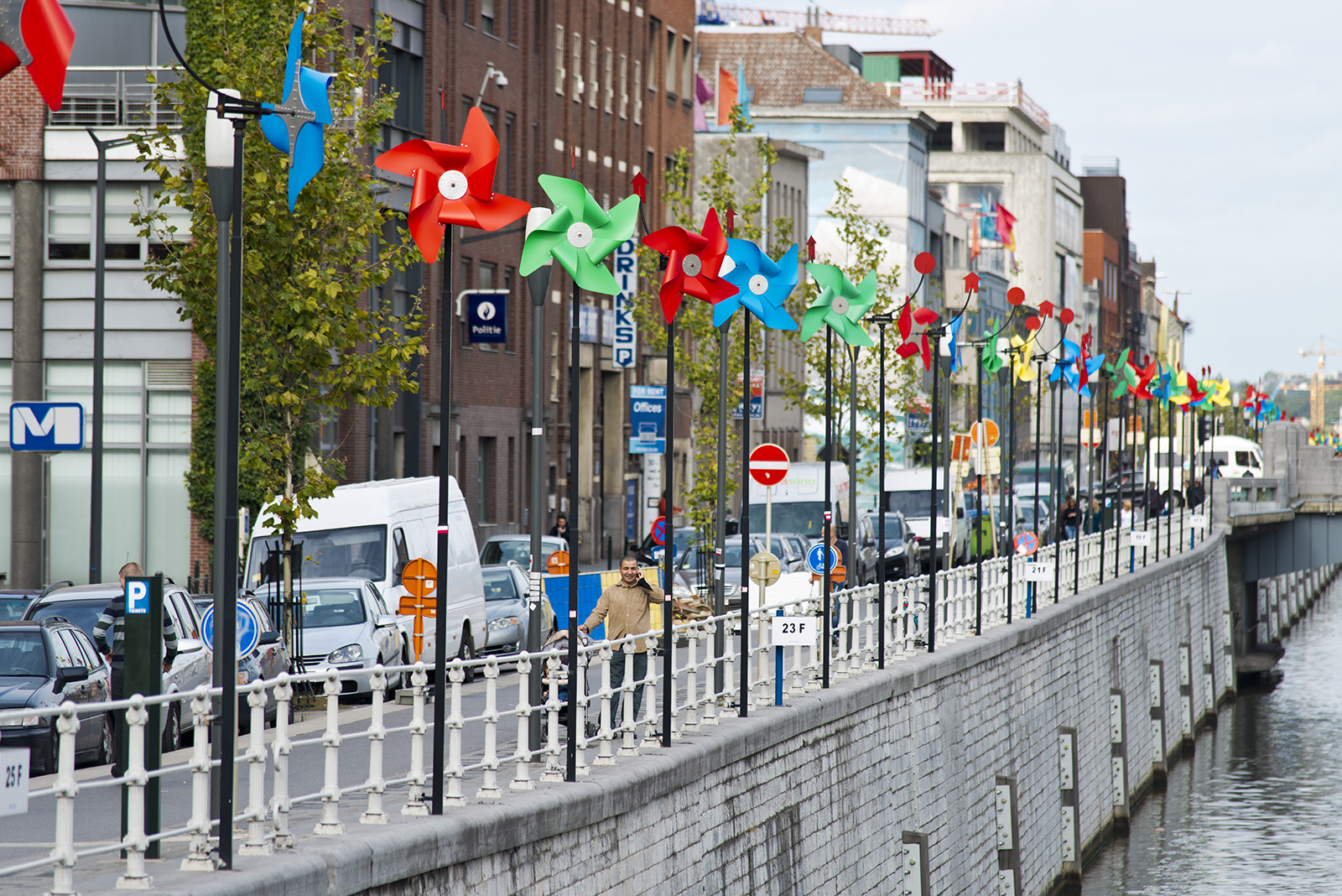 Pin Wheels along the Quai des Charbonnages/Koolmijnenkaai in Molenbeek-Saint-Jean/Sint-Jans-Molenbeek, Brussels